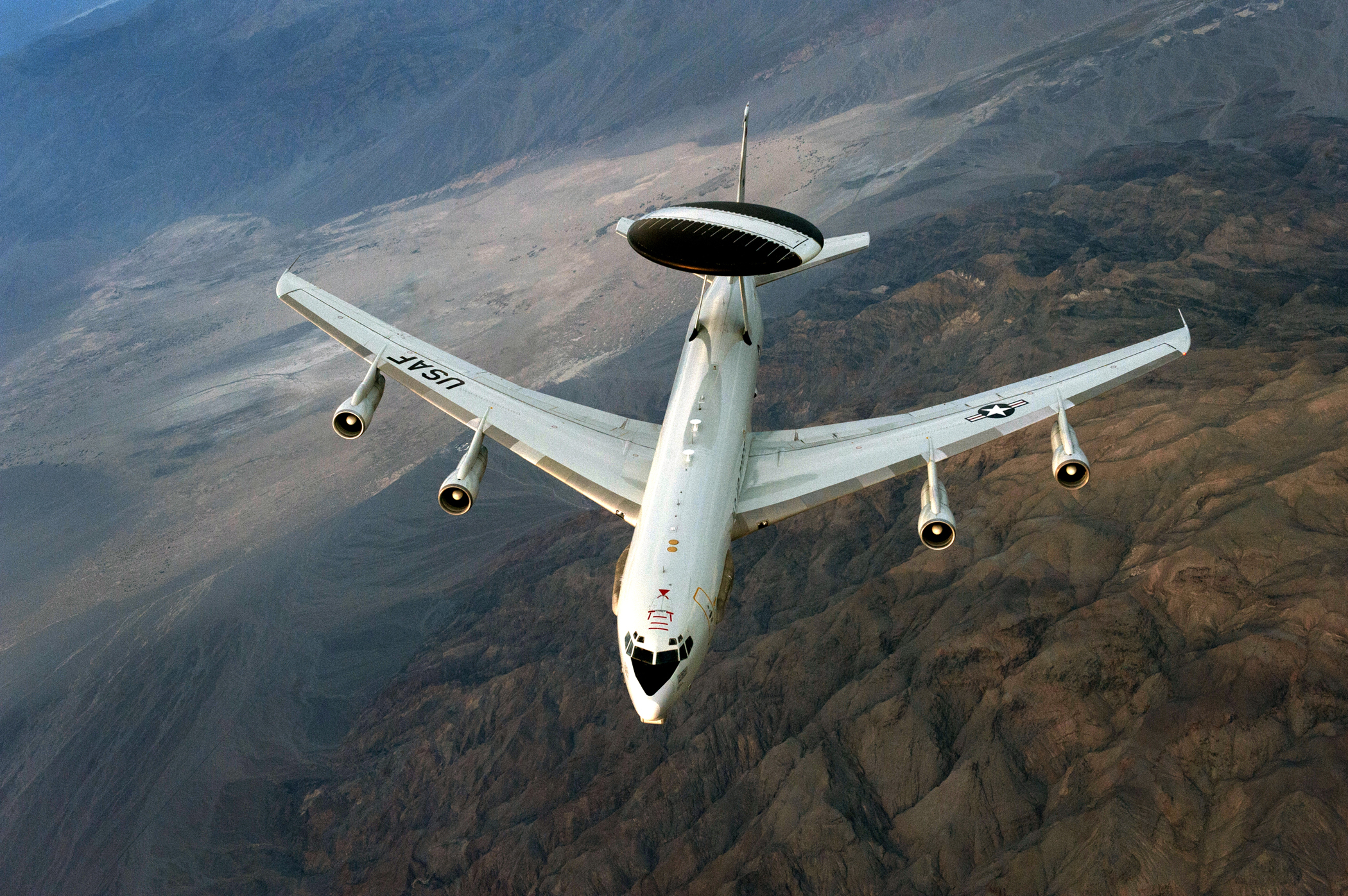 An E-3 Sentry airborne warning and control system aircraft soars over Nevada after a refueling mission during exercise Green Flag-West 13-02 at Nellis Air Force Base, Nevada, Nov. 1, 2012. The aircraft is assigned to the 963rd Airborne Air Control Squadron at Tinker Air Force Base, Oklahoma.